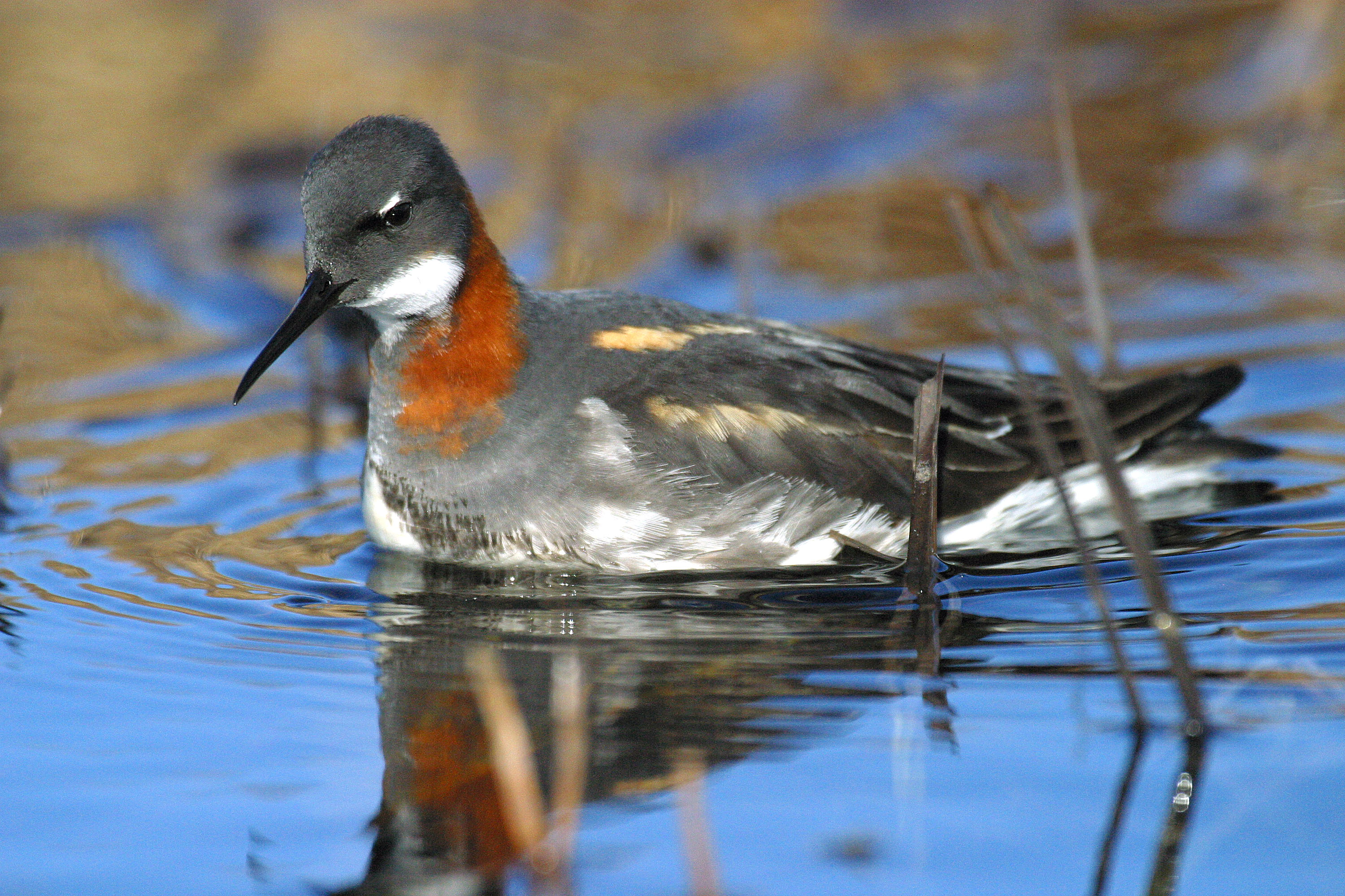 Red-necked Phalarope (Phalaropus lobatus) on water at Blackwater National Wildlife Refuge, MD.